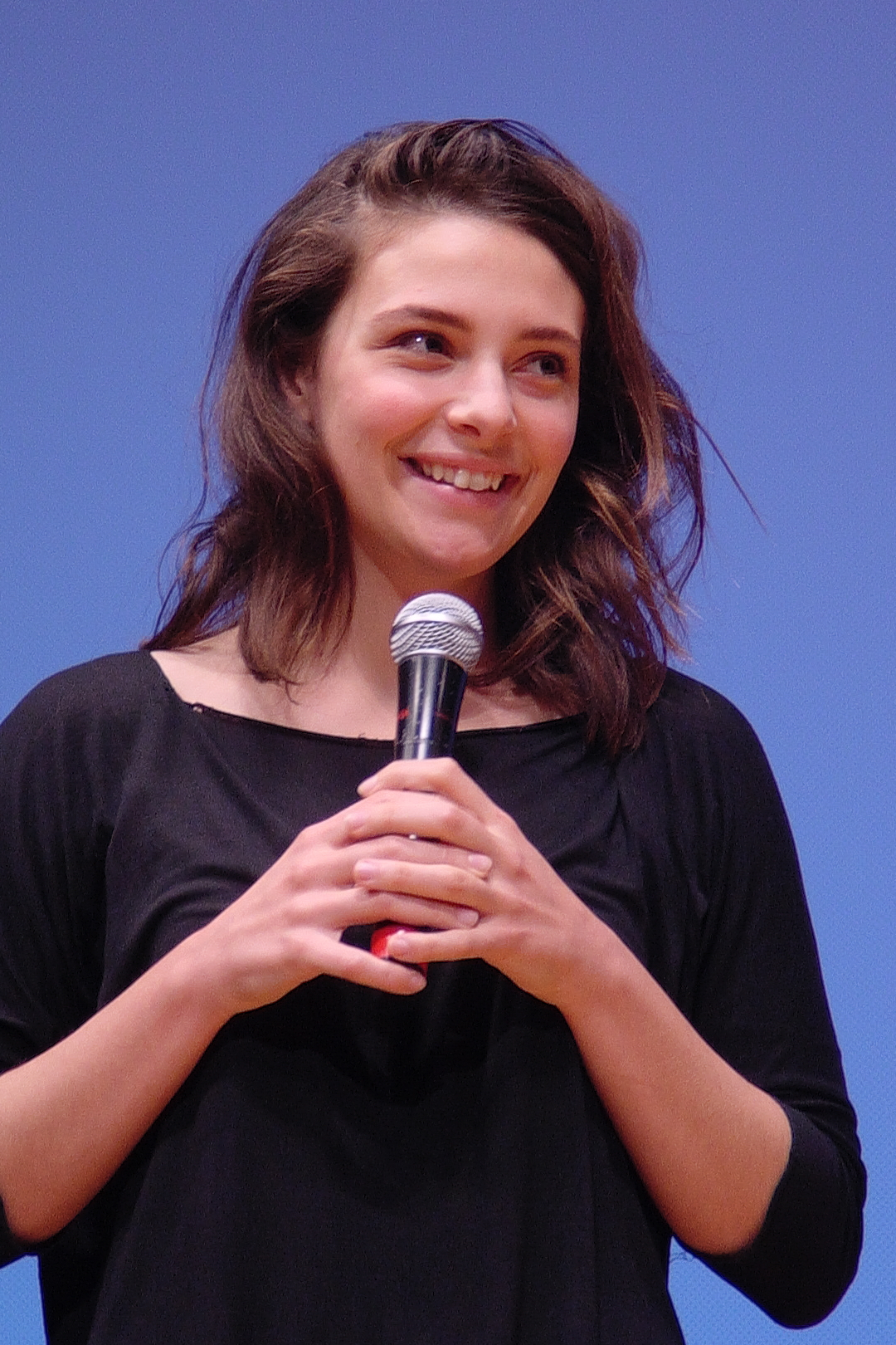 Italian actress Jasmine Trinca at the Italian Film Festival in Tokyo, 29 April 2007